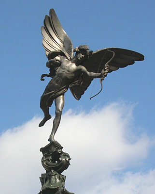 Piccadilly Circus, Anteros